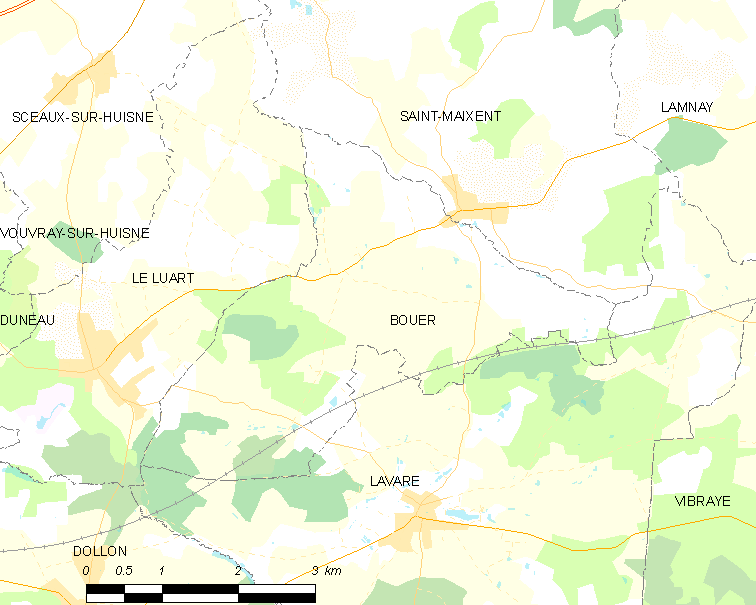 Map of French municipality